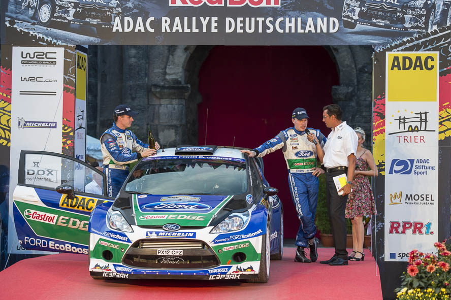 Rally Germany 2012 ADAC Rallye Deutschland,Ceremonial Start,Ford Fiesta RS WRC,Ford WRT,Ford World Rally Team,Jari-Matti Latvala,Miikka Anttila,Mikka Antilla,Motorsport,Rally,Rallye,Rallye Deutschland,WRC